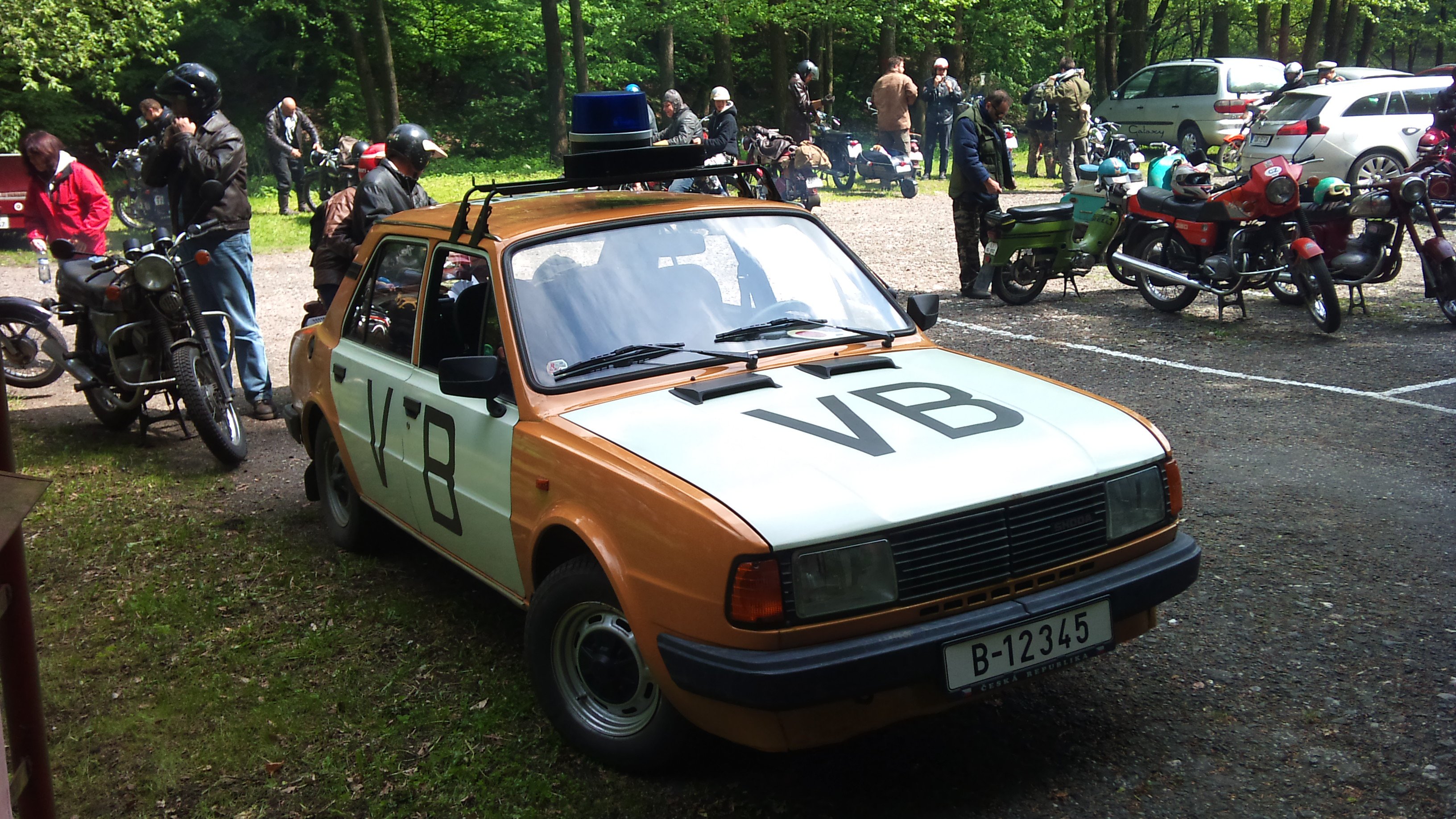 Shows old, czechoslovak police car Skoda 135